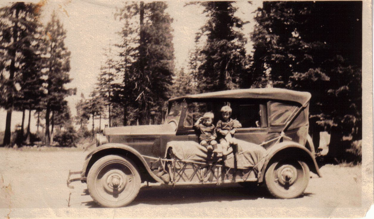 Camping in the 1920s-William and Robert Kreutzmann pictured.